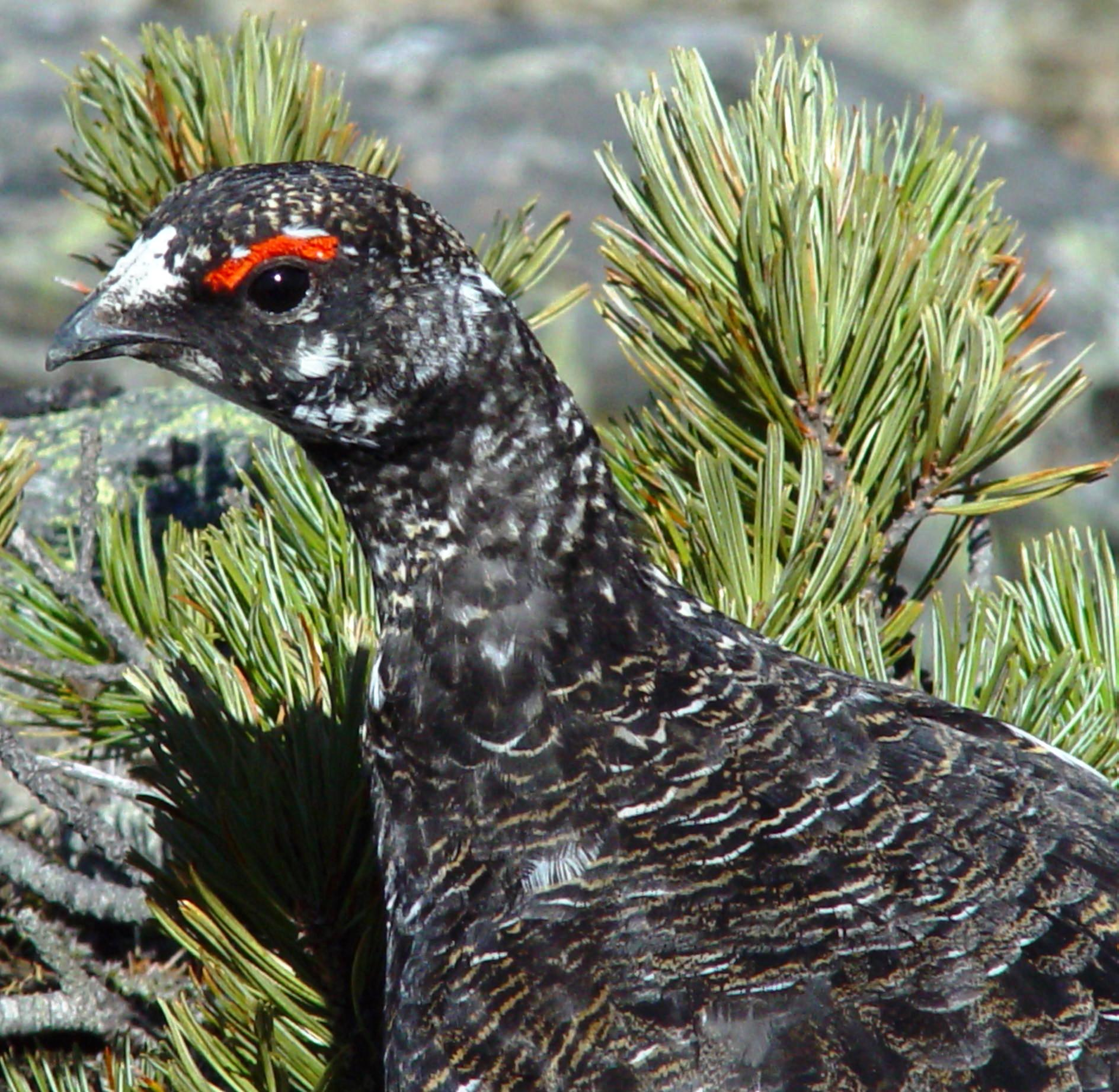 Rock Ptarmigan (Lagopus muta japonica, Lagopus mutus japonicus), male of summer plumage in Mount Ogōchi, Japan.